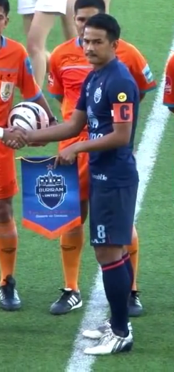 Picture of Suchao Nuchnum in 2013 Thai Premier League